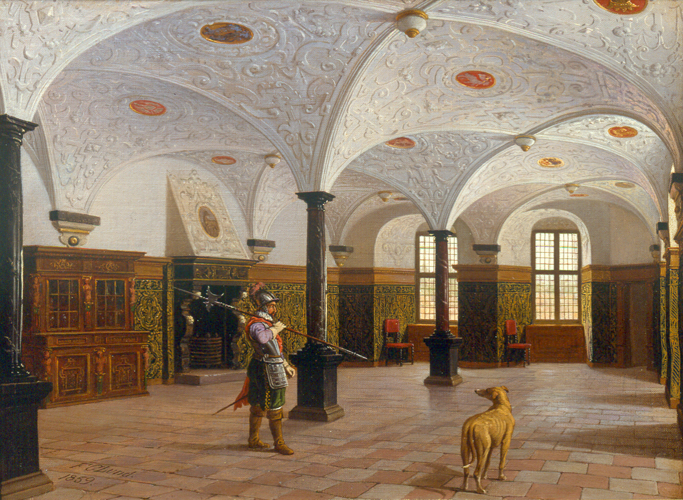 Painting of the "Rosen" Hall in 1859, before the fire. Painting at Frederiksborg Castle.